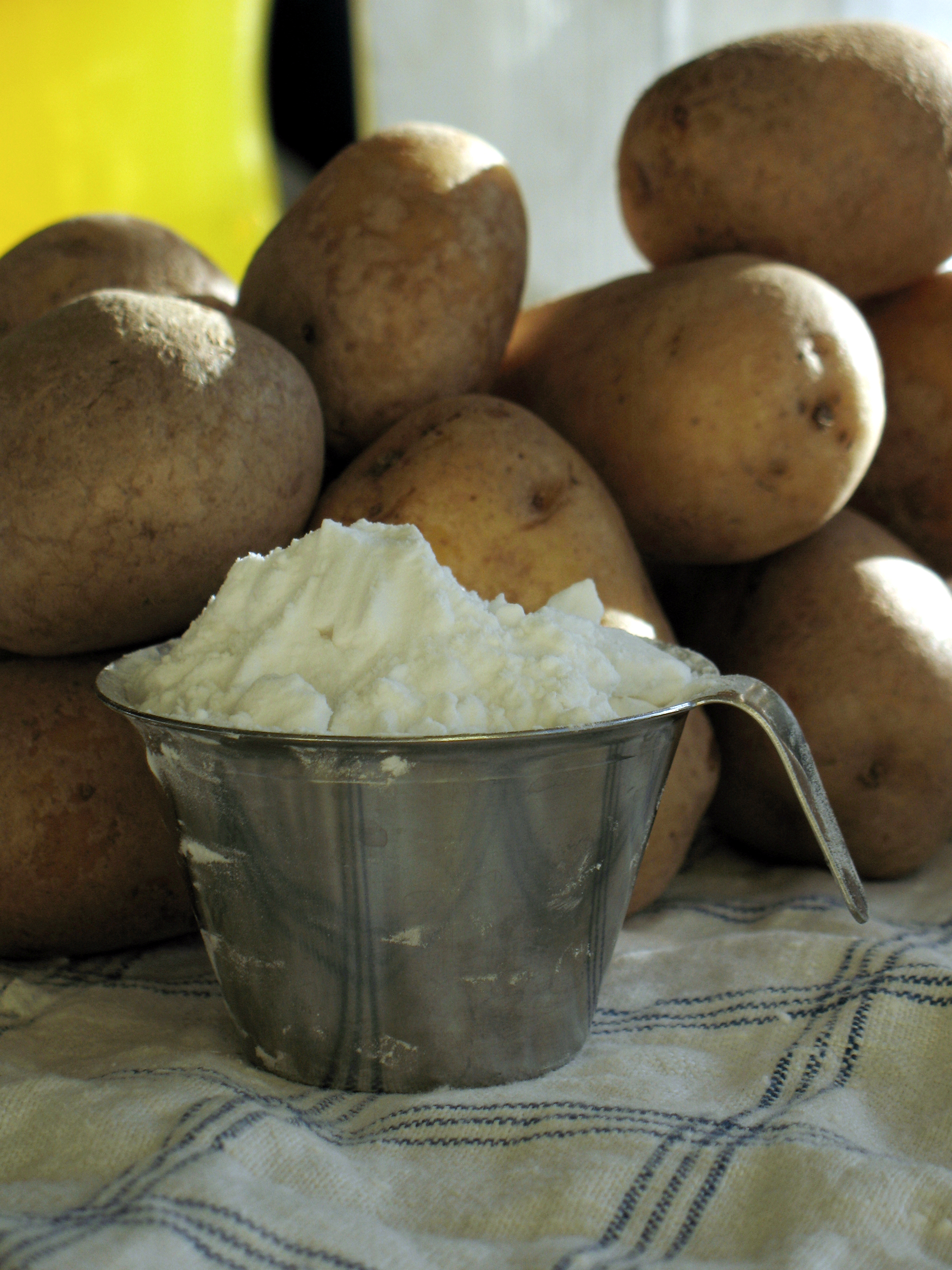 Potato flour.